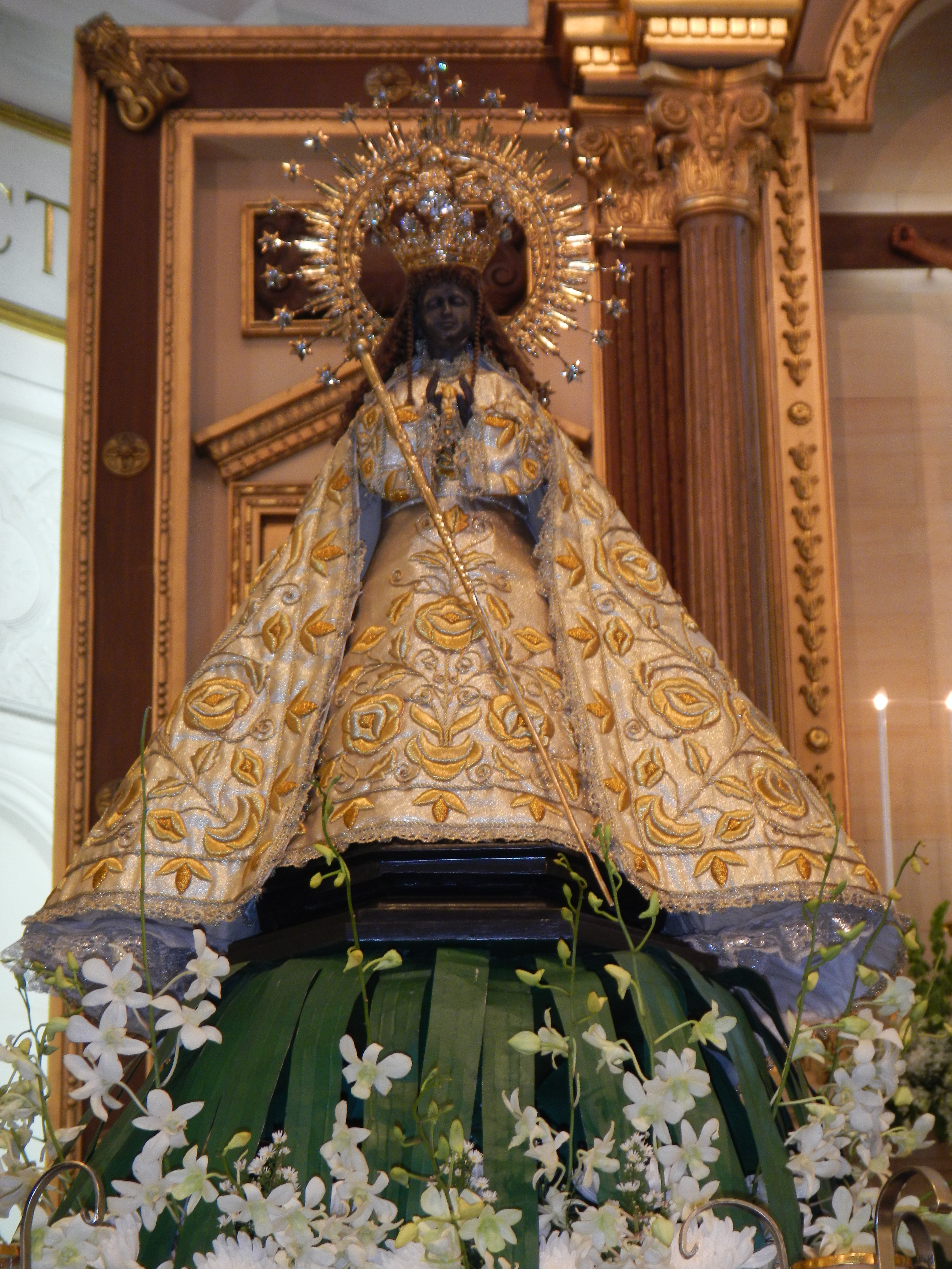 Photos of the First in Philippine History, landmark, historical and momentous: National Consecration to the Immaculate Heart of Mary, 8 June 2013 Consecration to the Immaculate Heart of Mary 8 June 2013 [1] Cardinal Tagle: No corruption in a country entrusted to MaryCardinal Tagle: No corruption in a country entrusted to MaryTagle leads prayer vs corruption, lifts PH to Mary’s heart Saturday, June 8th, 2013 [2] CBCP Circular Letter No. 01 – s. 2013: Celebration of the National Consecration to the Immaculate Heart of Mary on June 8, 2013.[3] + JOSE S. PALMA, D.D.[4] - "Bayang Sumisinta Kay Maria" ‘Act of Consecration to Mary,’ Marian recollection on June 8 June 2nd, 2013 Observance: Consecration of the Philippines to the Immaculate Heart of Mary Consecration to the Immaculate Heart of Mary June 8, 2013 [5] [6] THE Act of Consecration to the Immaculate Heart of Mary will be held in all the cathedrals, shrines, and parishes all over the country at 10 a.m June 8, 20123. Tagle, may panawagan sa mga Pilipino The National Consecration of the Philippines and the Catholic Faithful to the Immaculate Heart of Mary as "Isang Bayang Sumisinta kay Maria" (Pueblo Amante de Maria) took place on June 8, 2013, the Feast of the Immaculate Heart of Mary. It was led by Luis Antonio Tagle[7] (Latin: Aloysius Antonius Tagle